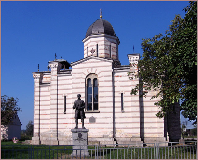 Salas Nocajski orthodox church